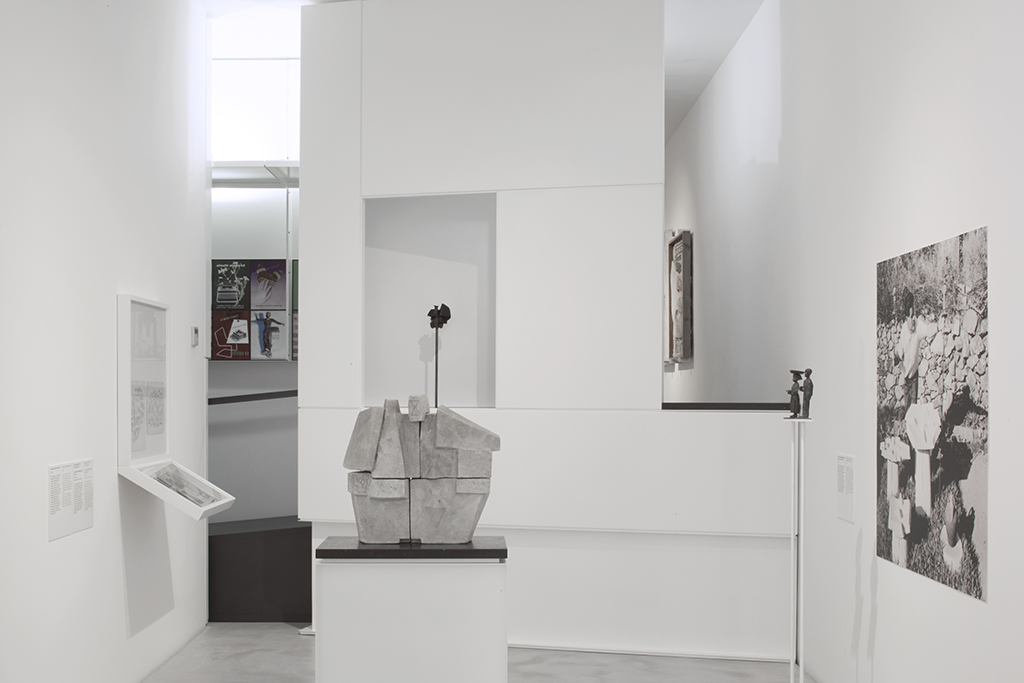 Installation view of the permanent collection